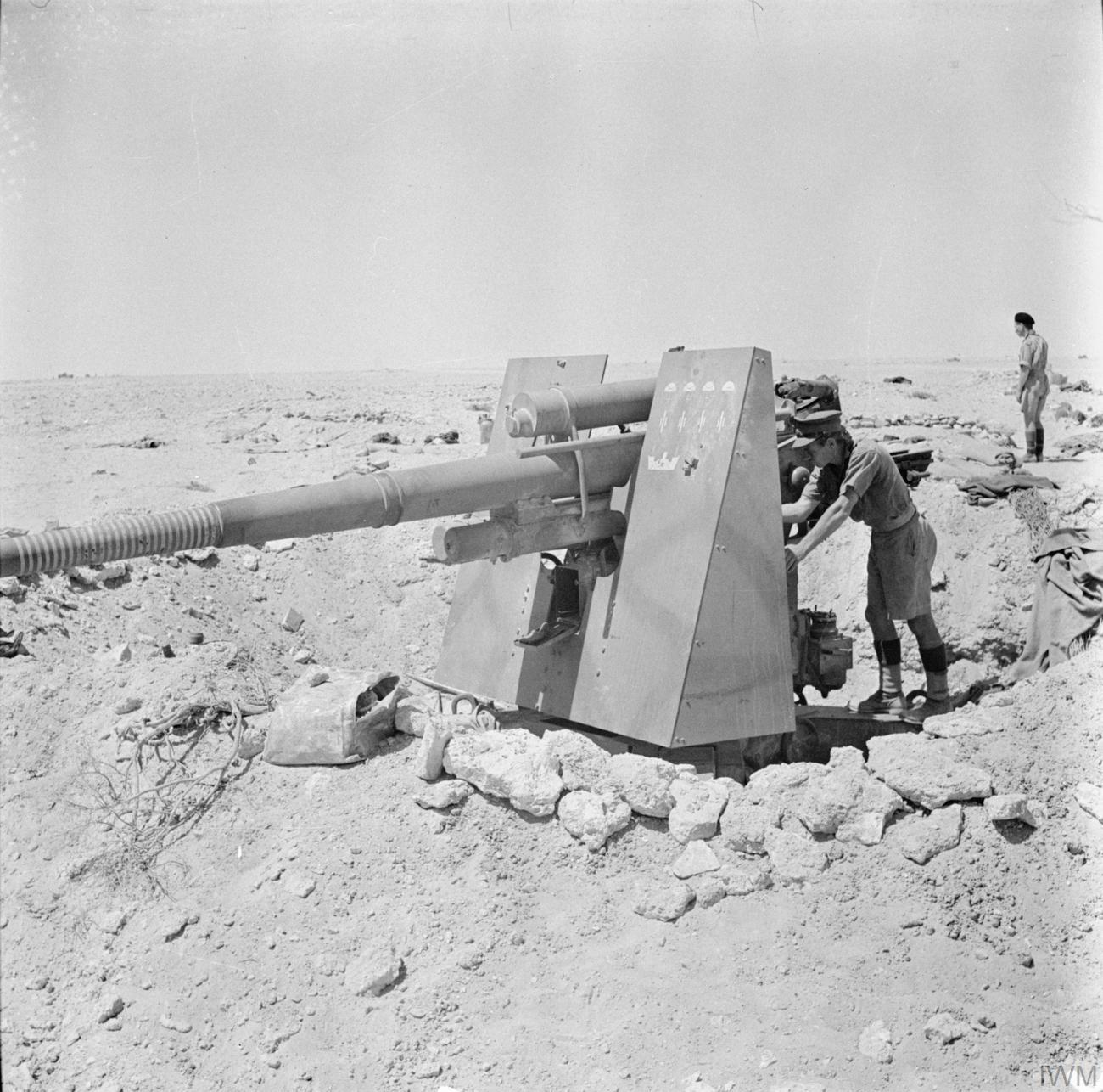 The British Army in North Africa 1942 A soldier inspects a dug-in German 88mm anti-tank gun abandoned during the enemy retreat in the Western Desert, 24 July 1942.